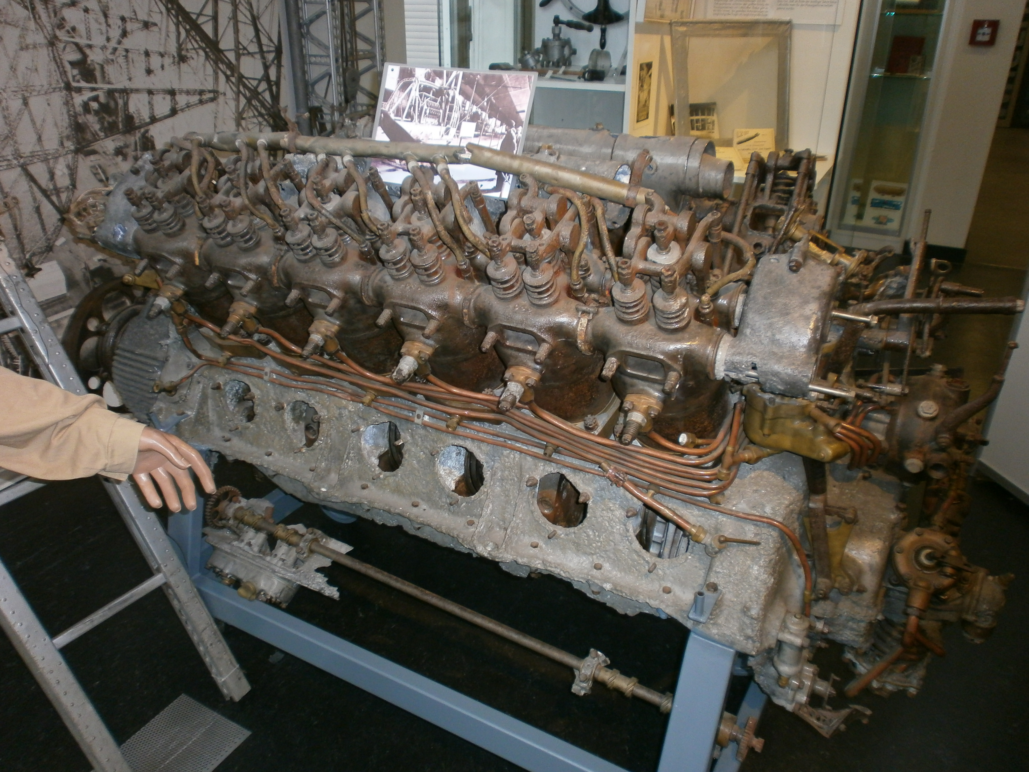 Maybach Zeppelin engine